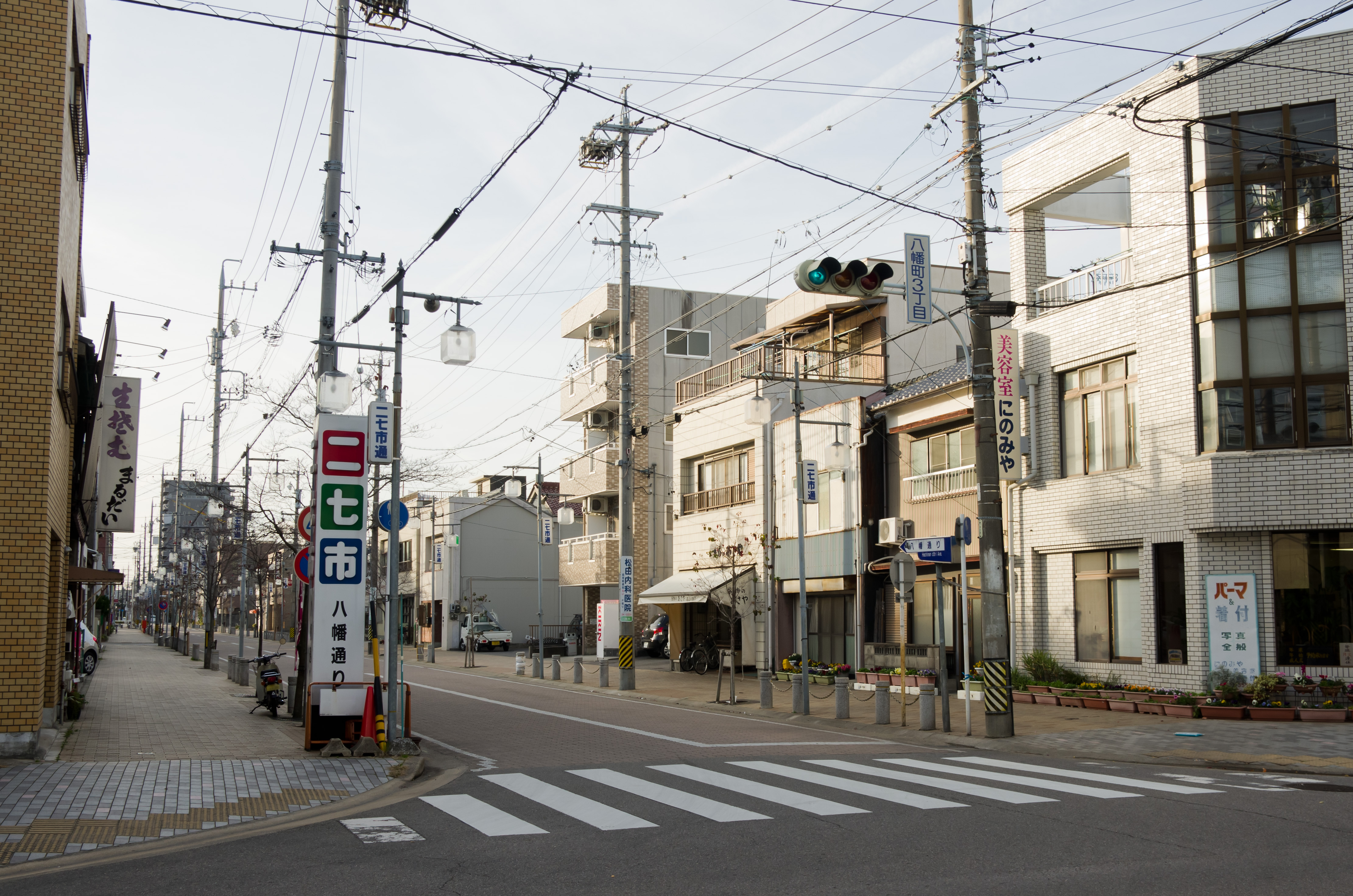 Hachiman-dori (Funaichi-dori) St. in Okazaki, Aichi, Japan